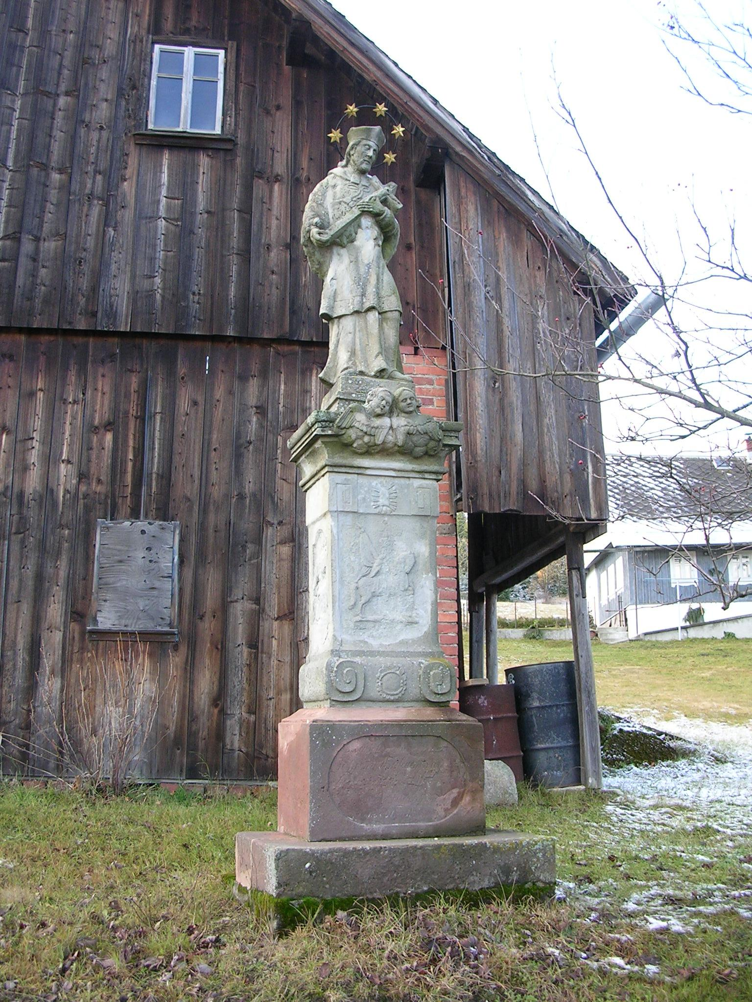 Paseky nad Jizerou, the Czech Republic.